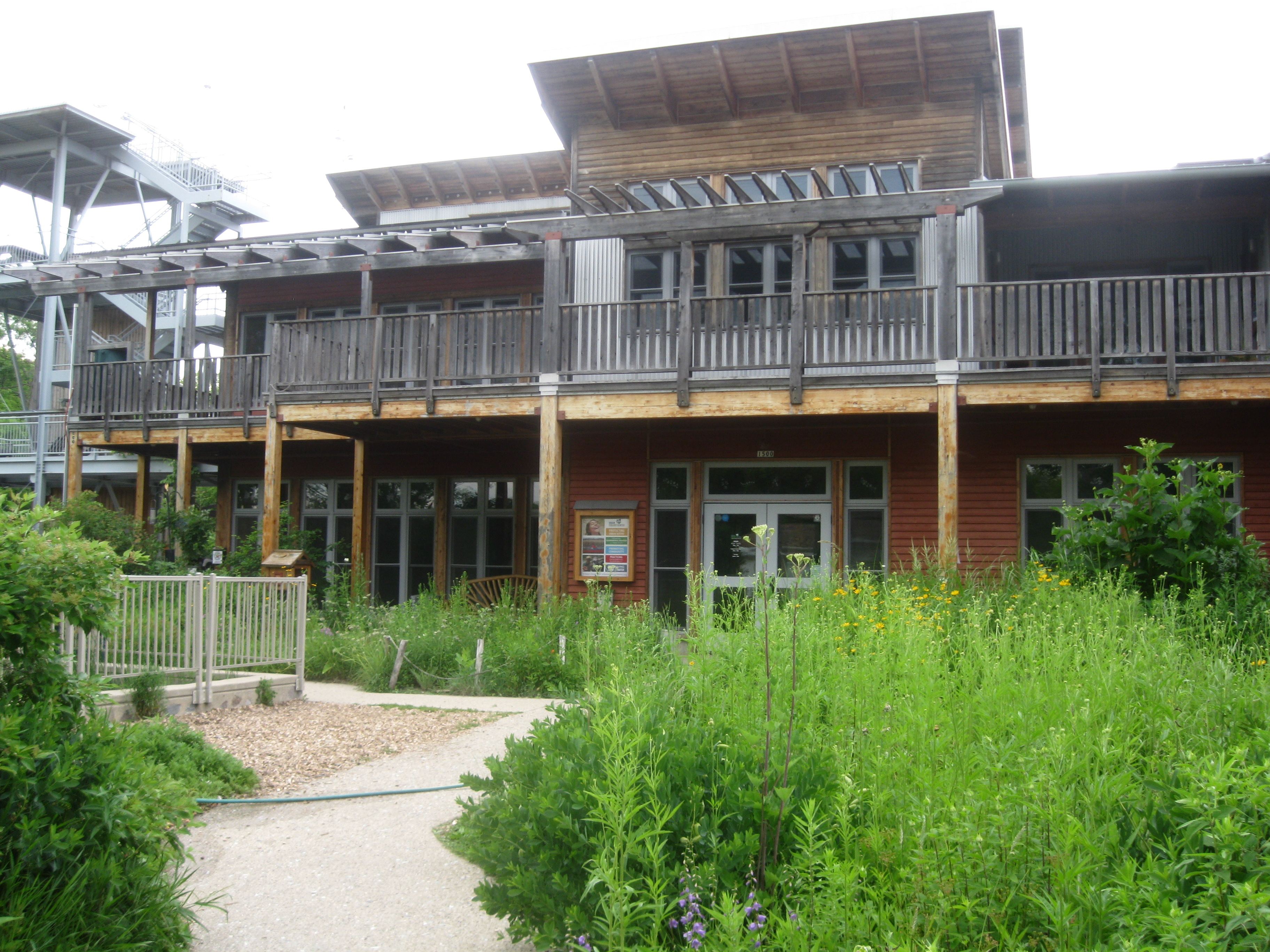 A photo of Riverside Park, Milwaukee, WI, United States.